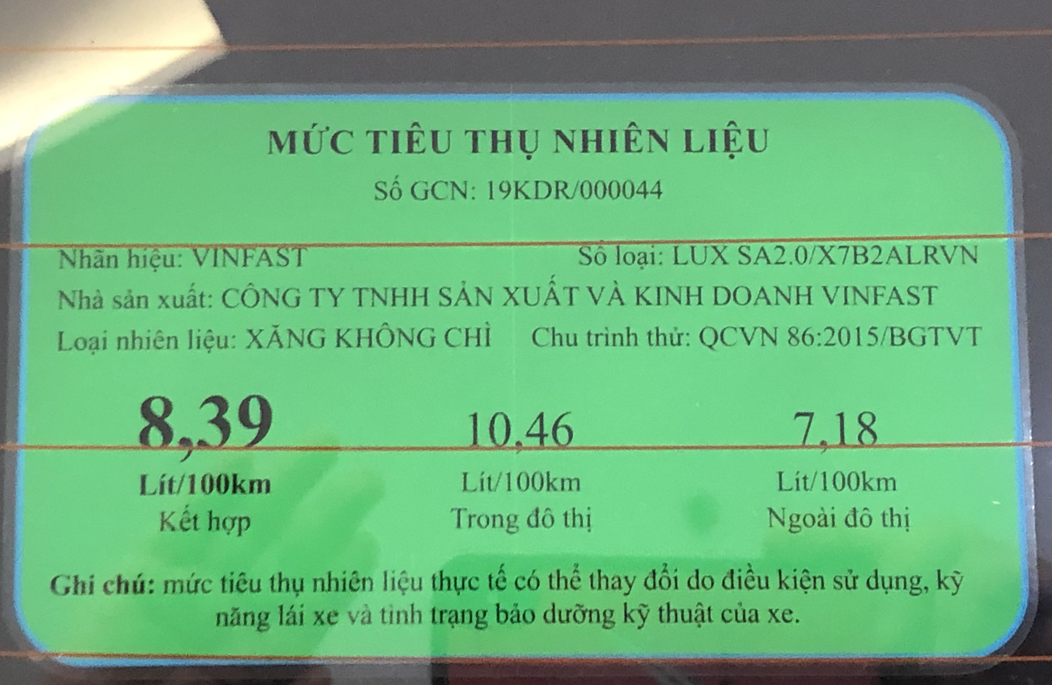 VinFast Lus SA2.0 petrol standard